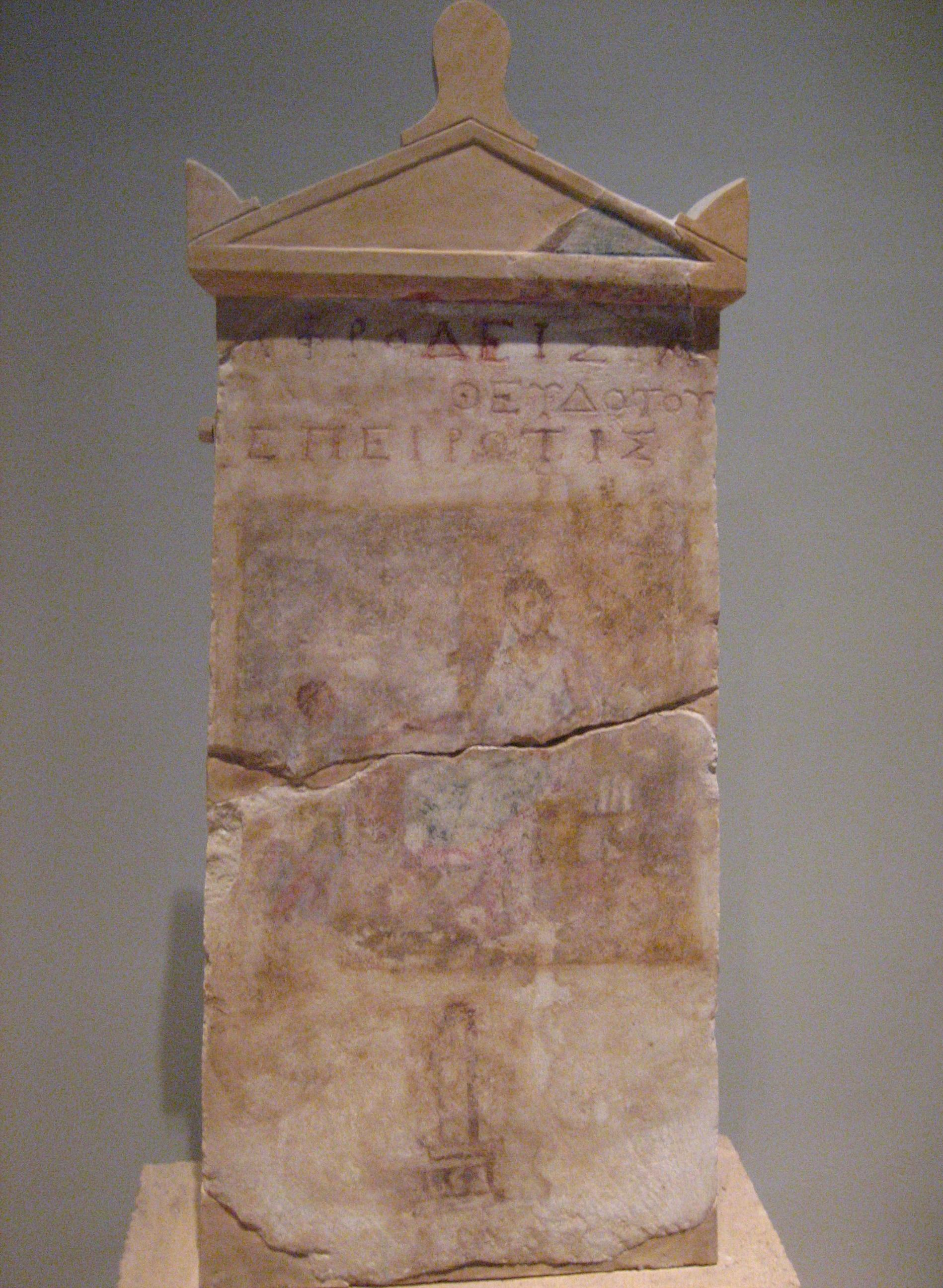 Stele with a painted scene of Aphrodeisia, daughter of Theudotos